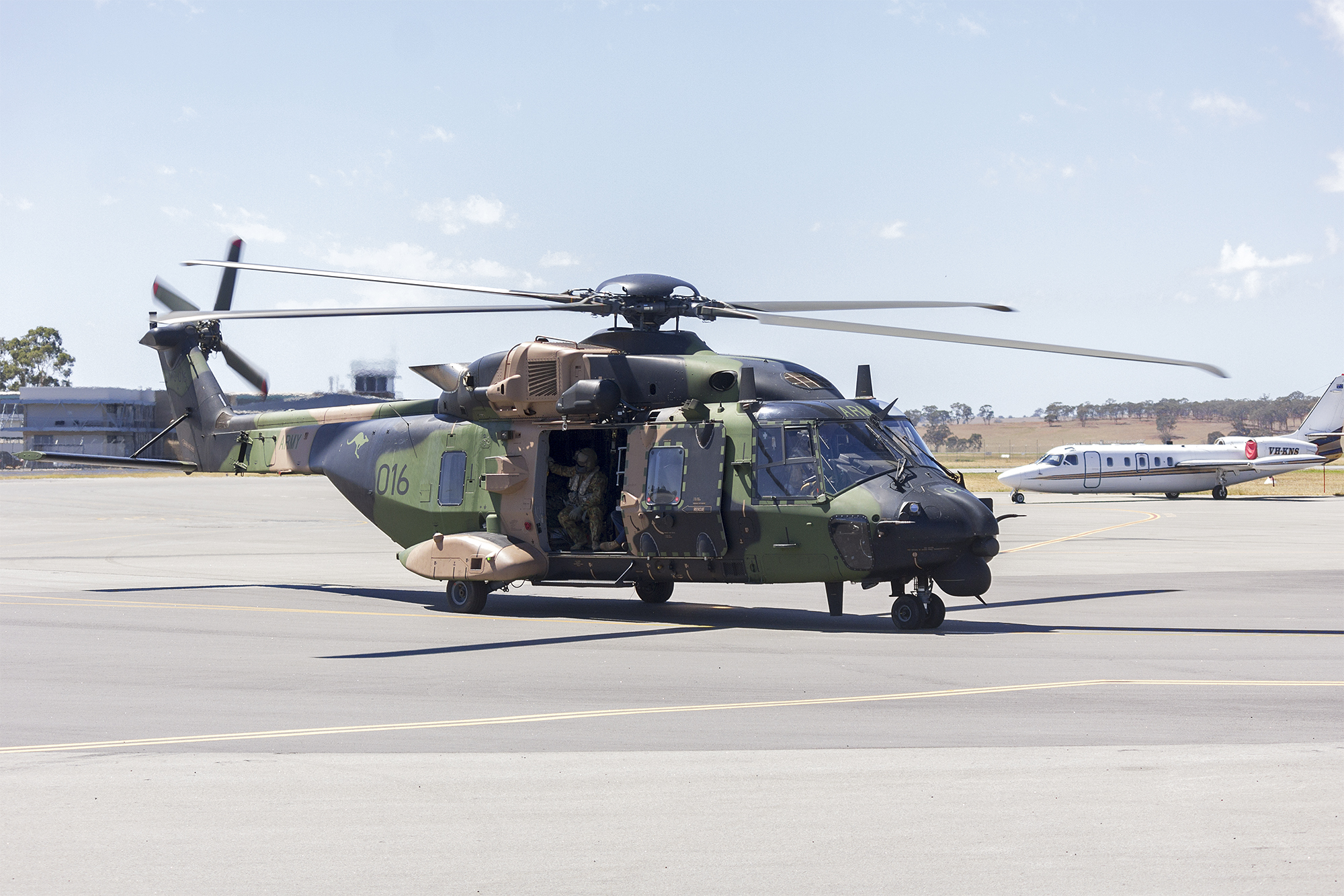 Australian Army (A40-016) NHI MRH-90 taxiing at Wagga Wagga Airport.